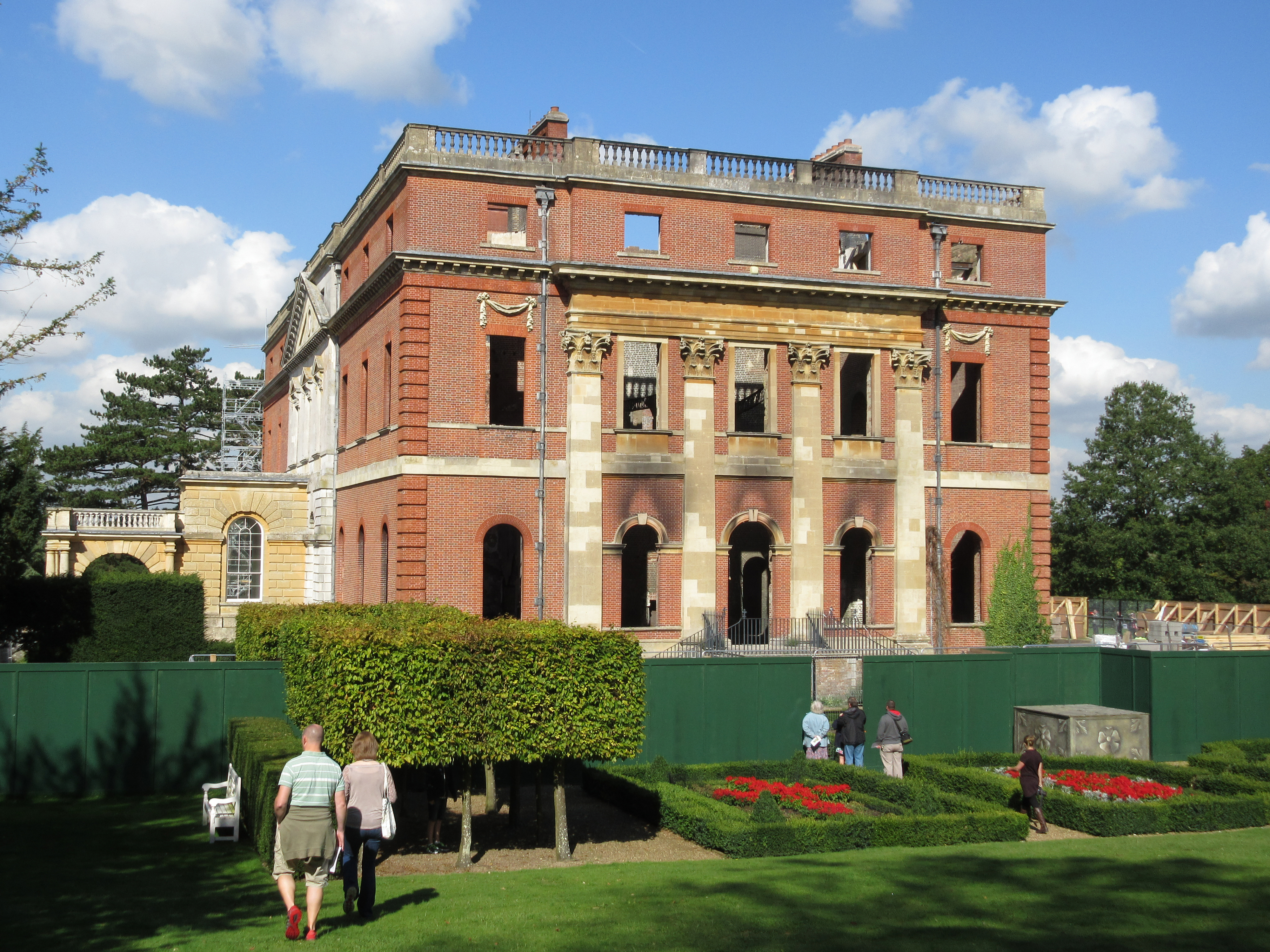 Burnt-out ruins of Clandon House, Surrey